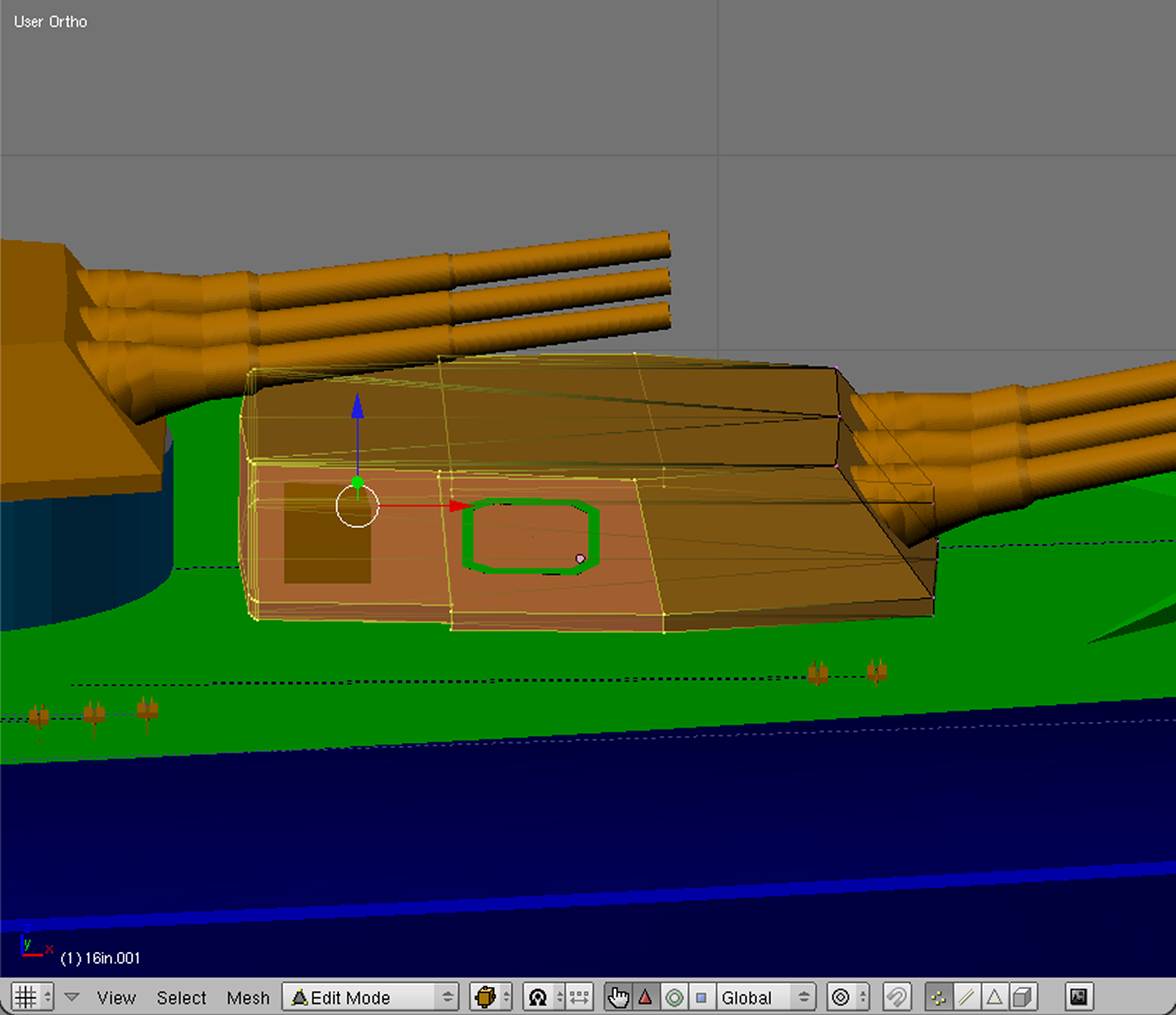 Vertices of a 3D model, selected vertices in yellow, unselected are purple